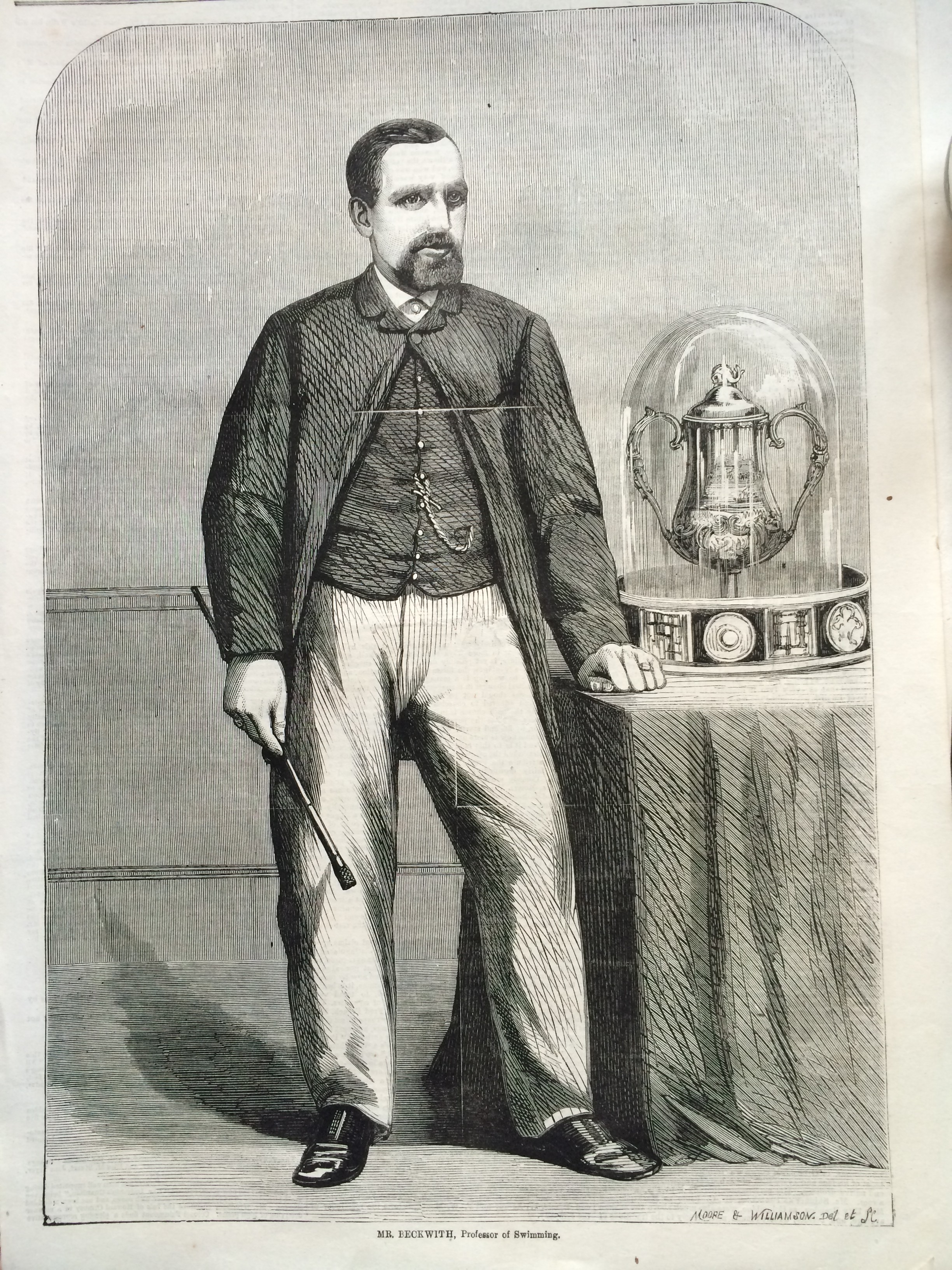 Frederick Edward Beckwith (16 December 1821 – 29 May 1898) was an English swimmer who won "championship" races in the 1850s. 1870??? pic Father of Agnes Beckwith